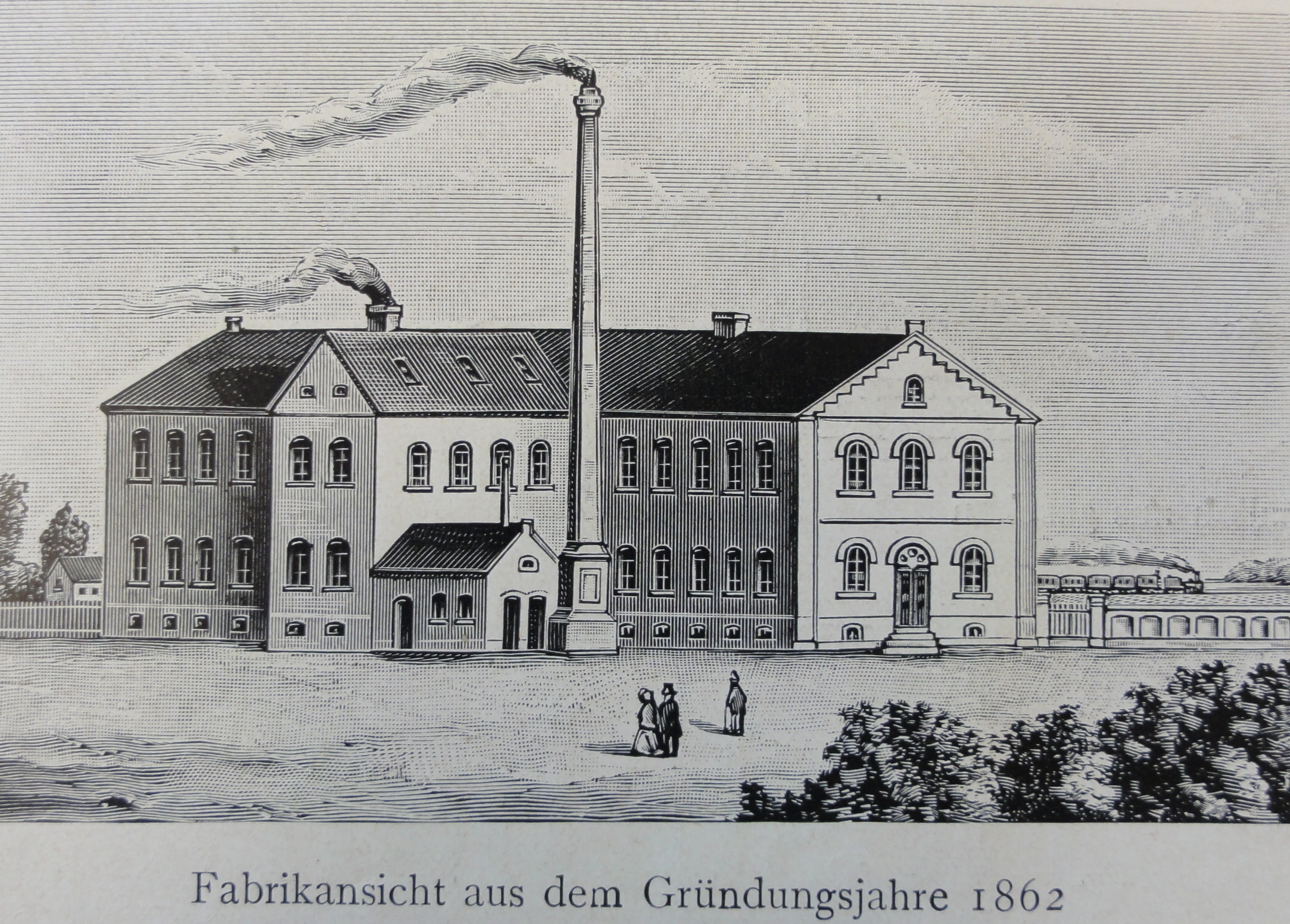 Hannover Gummikamm Werk 1862, first historical view